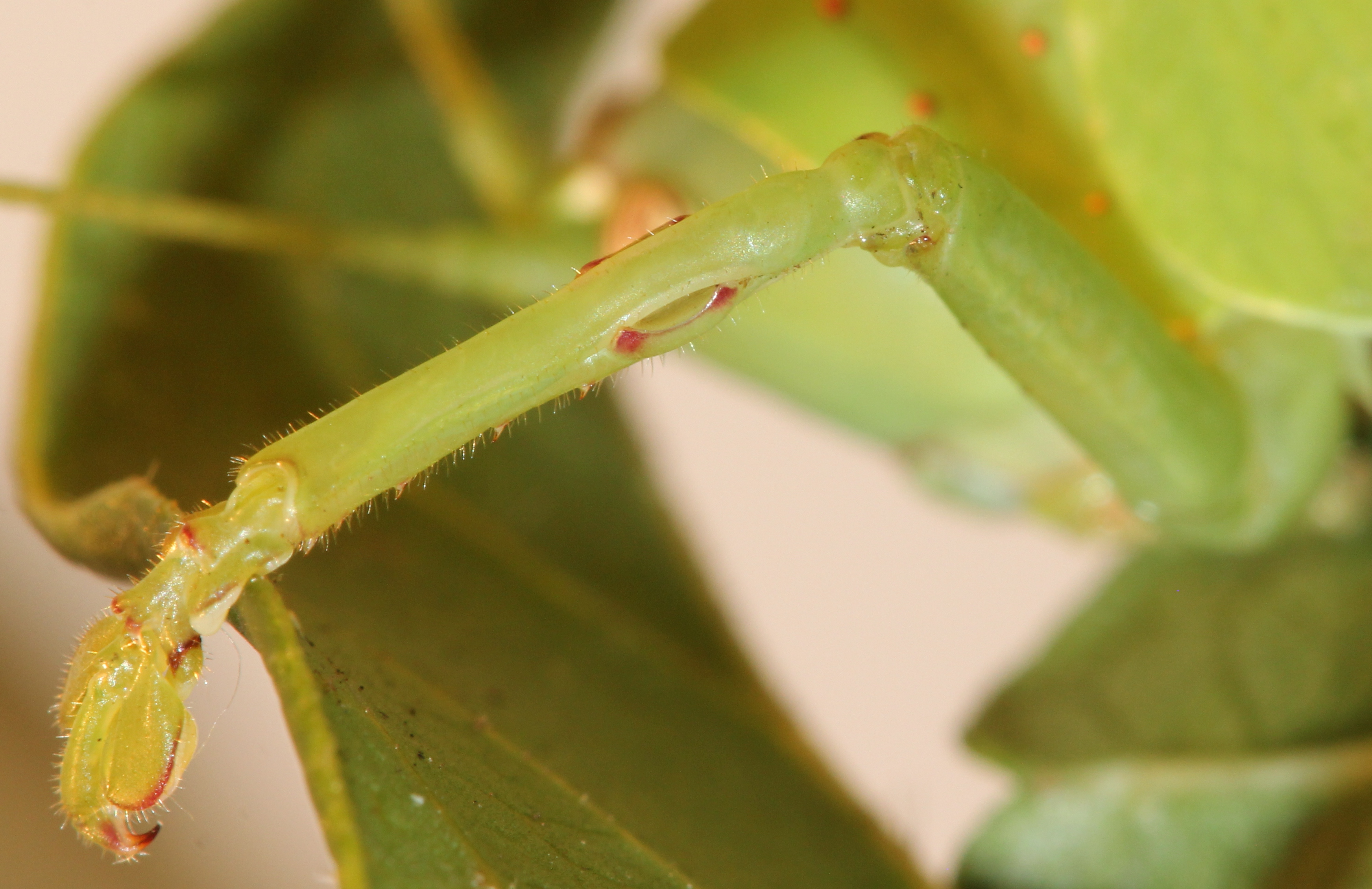 Tettigoniidae Zabalius aridus True Leaf Katydid female Dorsolateral view of external ear and tarsus